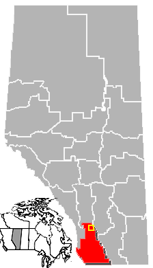 Location of Nanton, Census Division No. 3, Albera